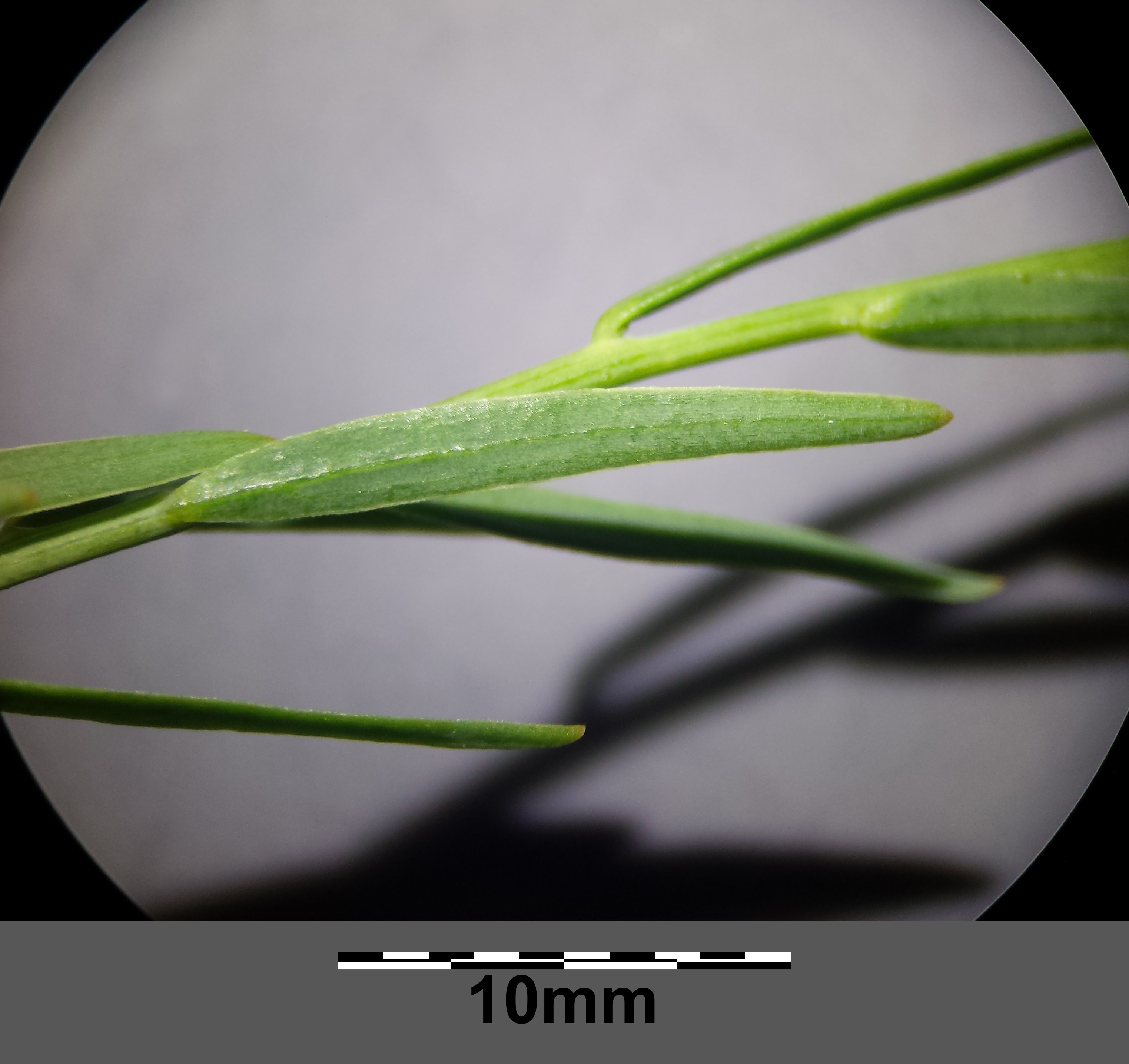 Stem with leaves Taxonym: Thesium linophyllon ss Fischer et al. EfÖLS 2008 ISBN 978-3-85474-187-9 Location: Steinberg near Niederhollabrunn, district Korneuburg, Lower Austria - ca. 375 m a.s.l. Habitat: semi-dry grassland